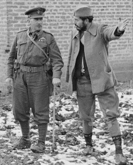 British Brigadier Charles Armstrong with Captain Predrag Rakovic of the Chetnik 2nd Ravna Gora Corps, near Cacak, late 1943.